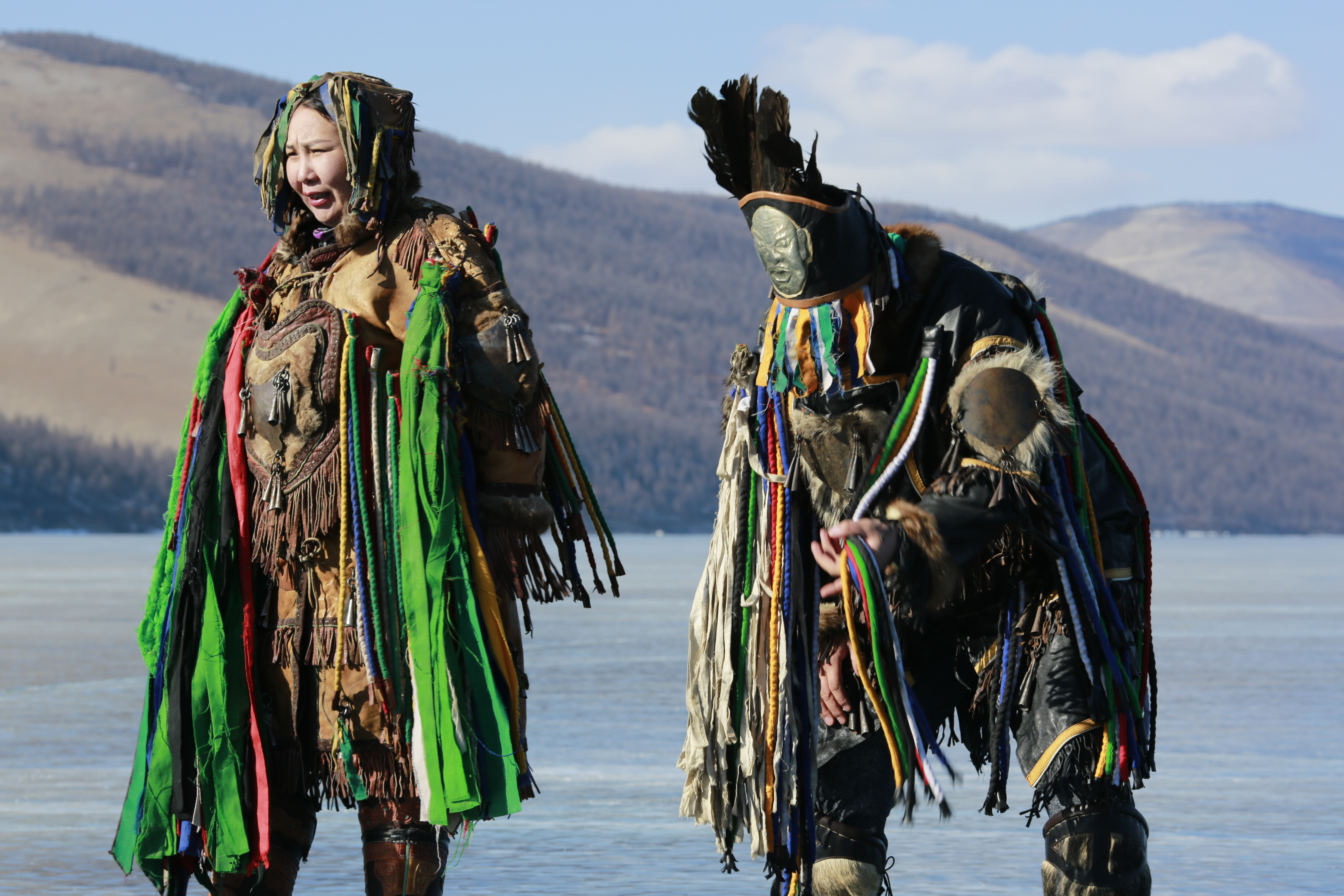 Picture was taken during "Blue Pearl" annual ICE festival in Khovsgol lake, Mongolia. Date 3rd March 2019, 3:11 PM. "Samgaldai" Shamanic NGO's Shamans are pictured.